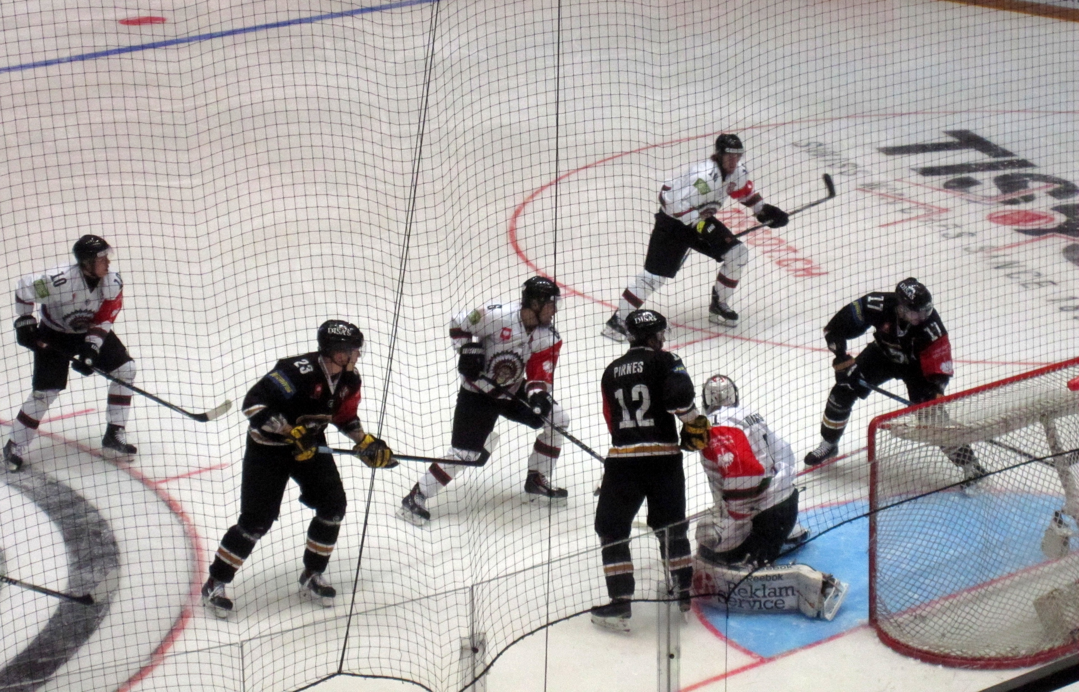 Kärpät vs Frölunda HC, a CHL playoff game in Oulu.